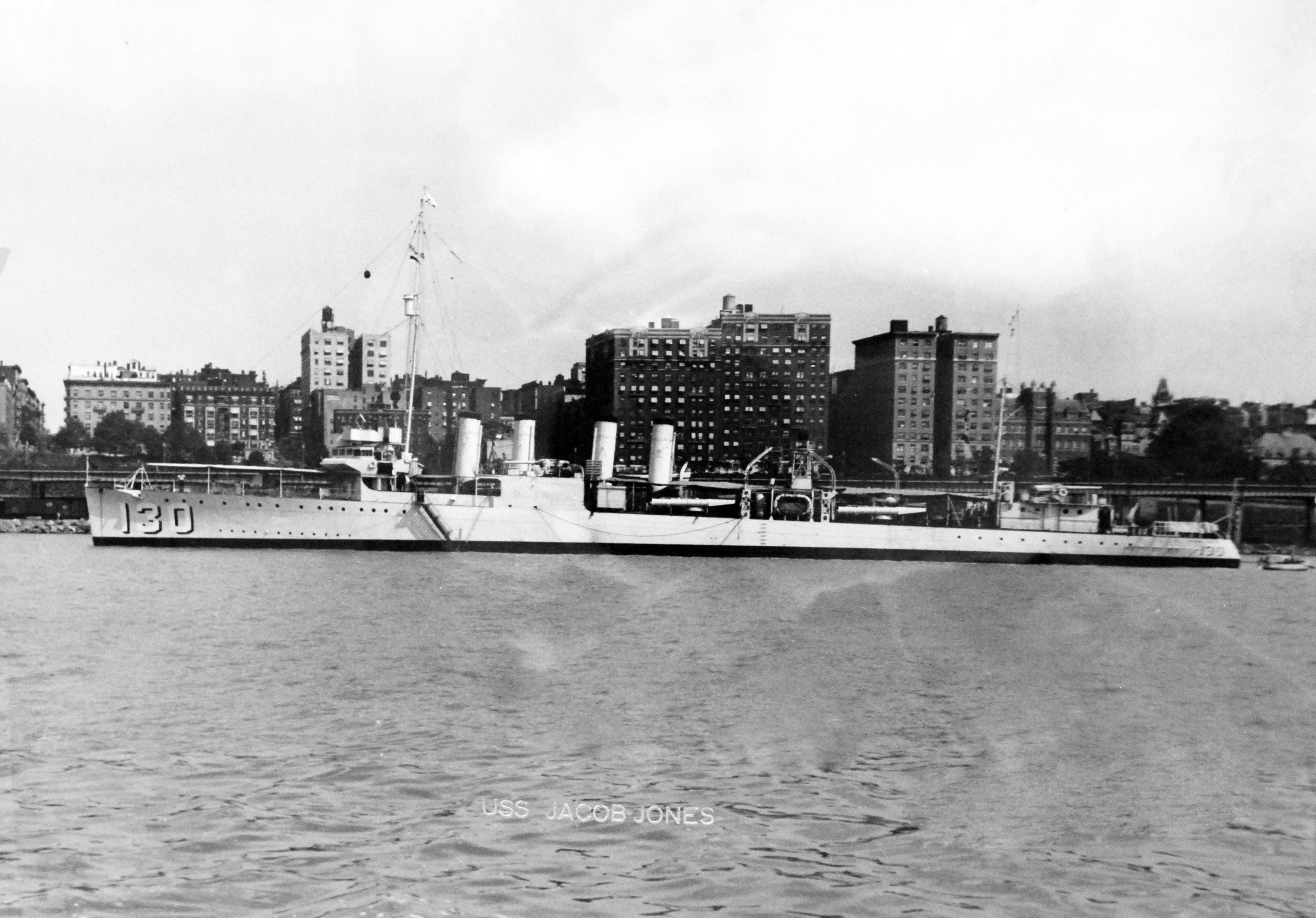 Lot 5124-9: USS Jacob Jones (DD 130), port view, off New York City, probably 1939. Jacob Jones was sunk by German submarine U-578 on February 28, 1942. “Our Navy” Collection. Photographed through Mylar sleeve. (6/12/2015).